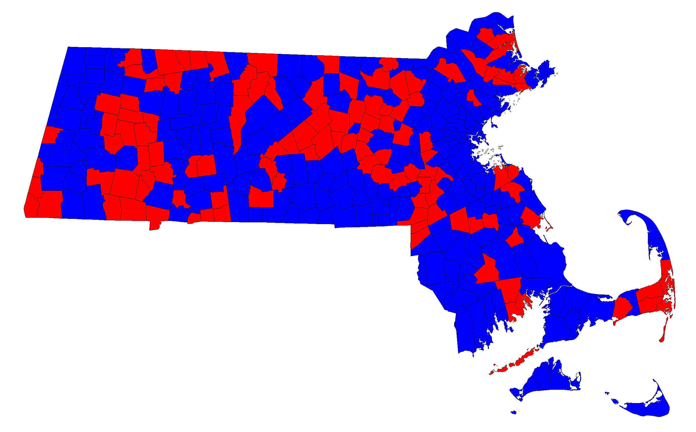 Results of the 1982 United States Senate election in Massachusetts. Towns in blue won by Kennedy, red by Shamie. Data procured at